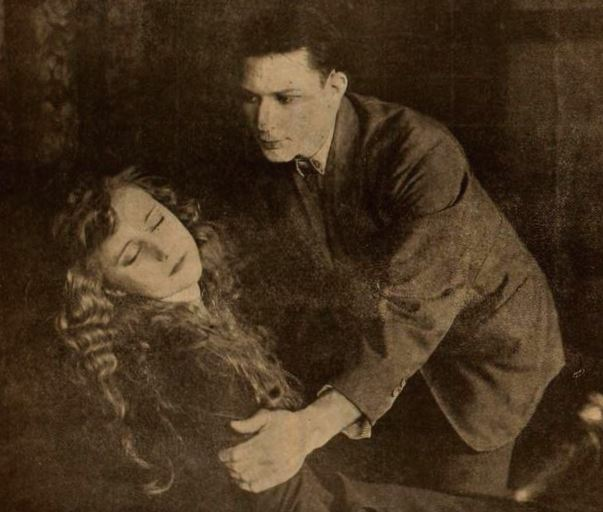 Still from the American film serial The Evil Eye (1920) with Benny Leonard and Ruth Dwyer, from an ad on page 4086 of the May 15, 1920 Motion Picture News.